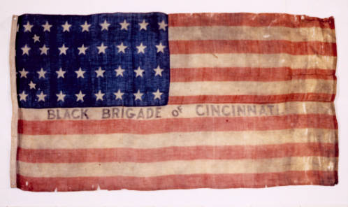 Description: This wool flag was presented in September 1862 to the African American men of Cincinnati who were part of the first organized group of black men employed for military purposes in the North. It is a United States national flag with 34 stars printed in a grid pattern on a blue canton. There are 13 stripes, seven red and six white. Text printed in black on fourth white stripe reads "BLACK BRIGADE OF CINCINNATI." The flag measures 40.55 by 75.59 inches (103 x 192 cm). The Black Brigade of Cincinnati was composed of 700 African American men. Historical Society's archival collections.